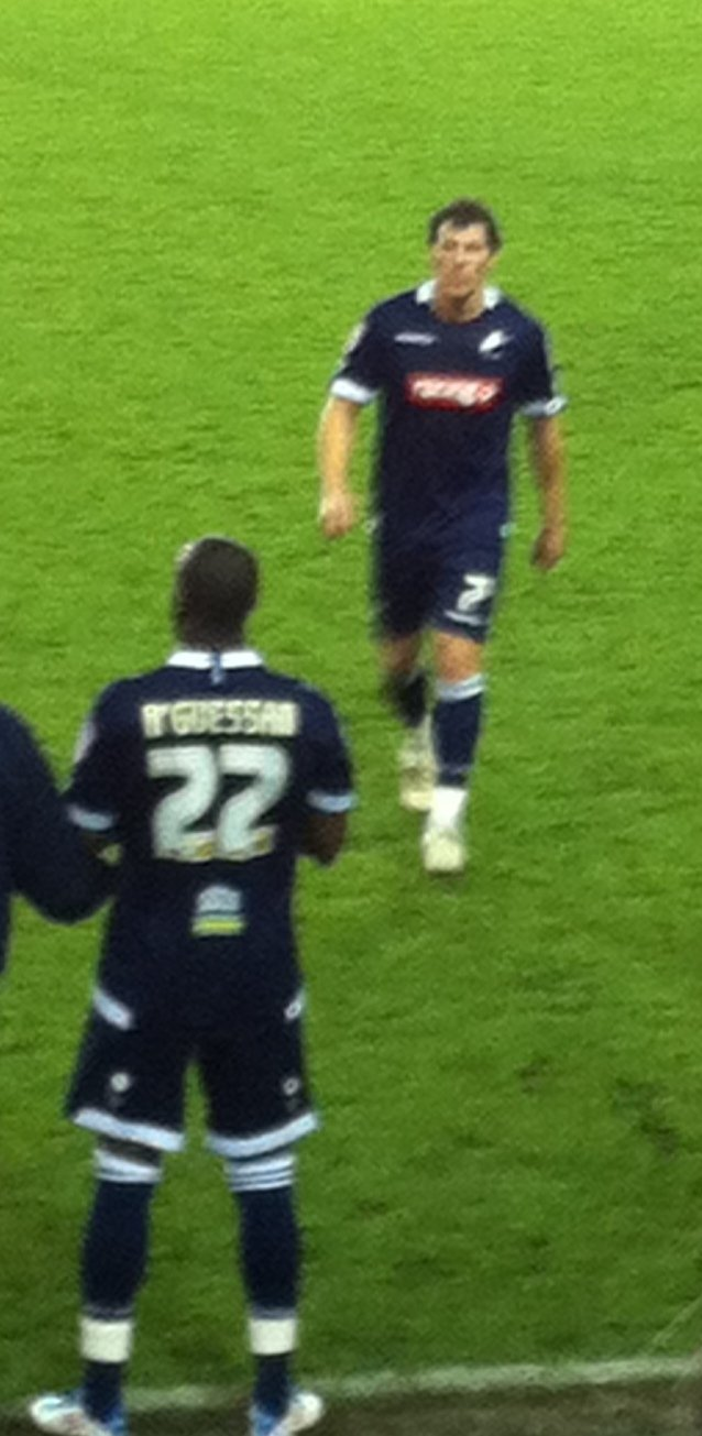 Henderson being substitued after scoring two goals for Millwall against Ipswich Town in a 4-1 win, on 1/11/2001